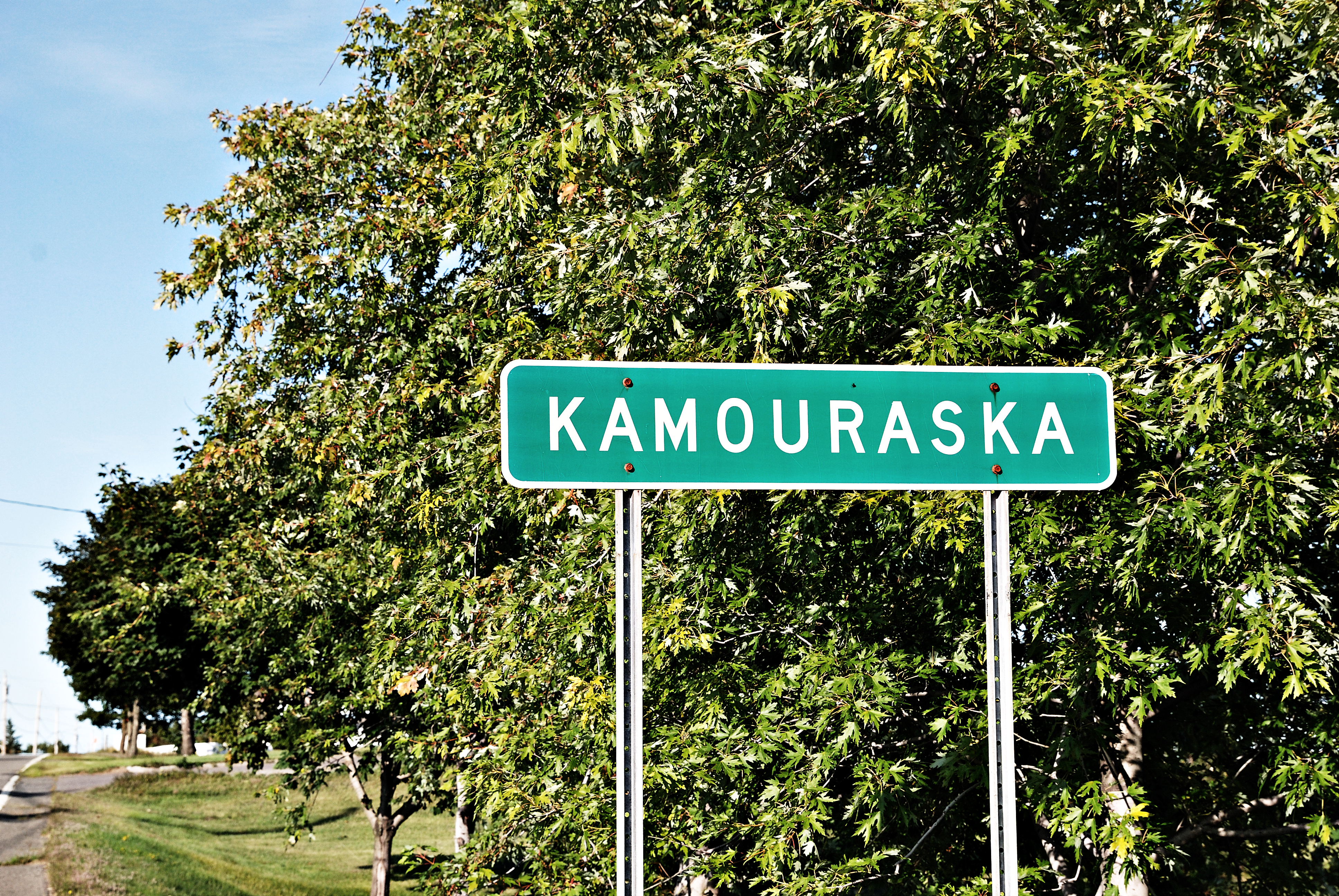 Kamouraska: city limit sign